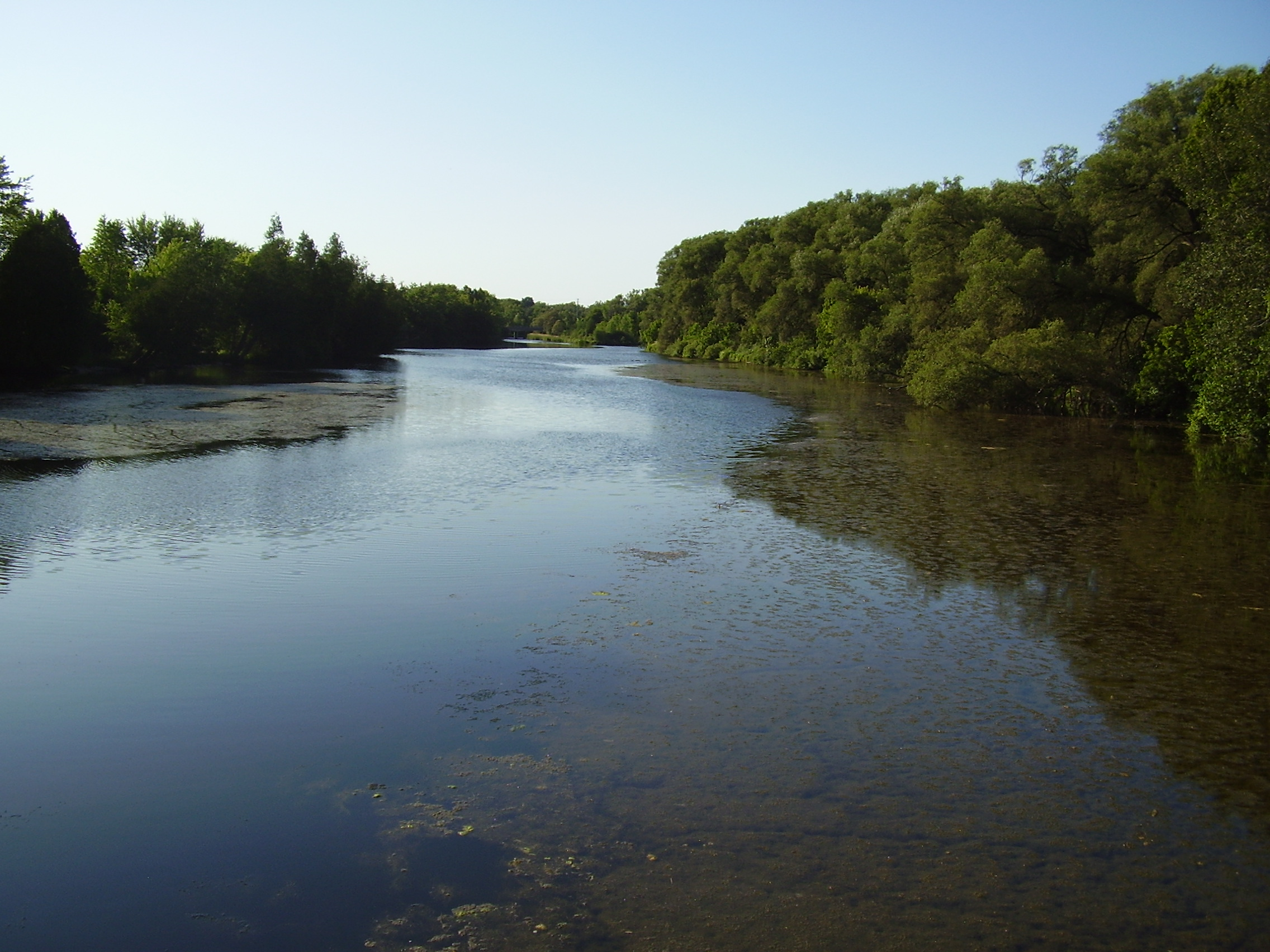 A view of the Speed River (a tributary of the Grand River) in Guelph, Ontario, Canada, looking upstream (roughly north) from the footbridge in Riverside Park.